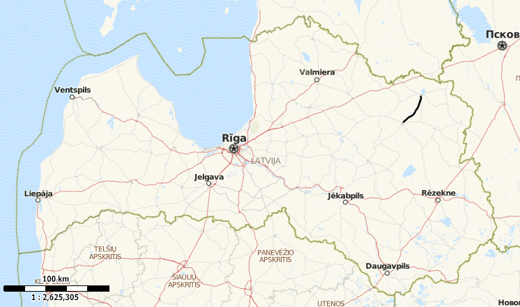 Narrow gauge railroad Gulbene — Aluksne on map of Latvia